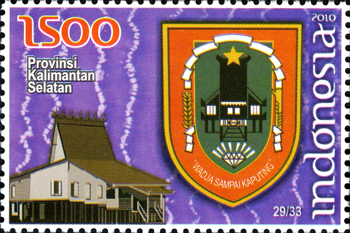 Stamps of Indonesia